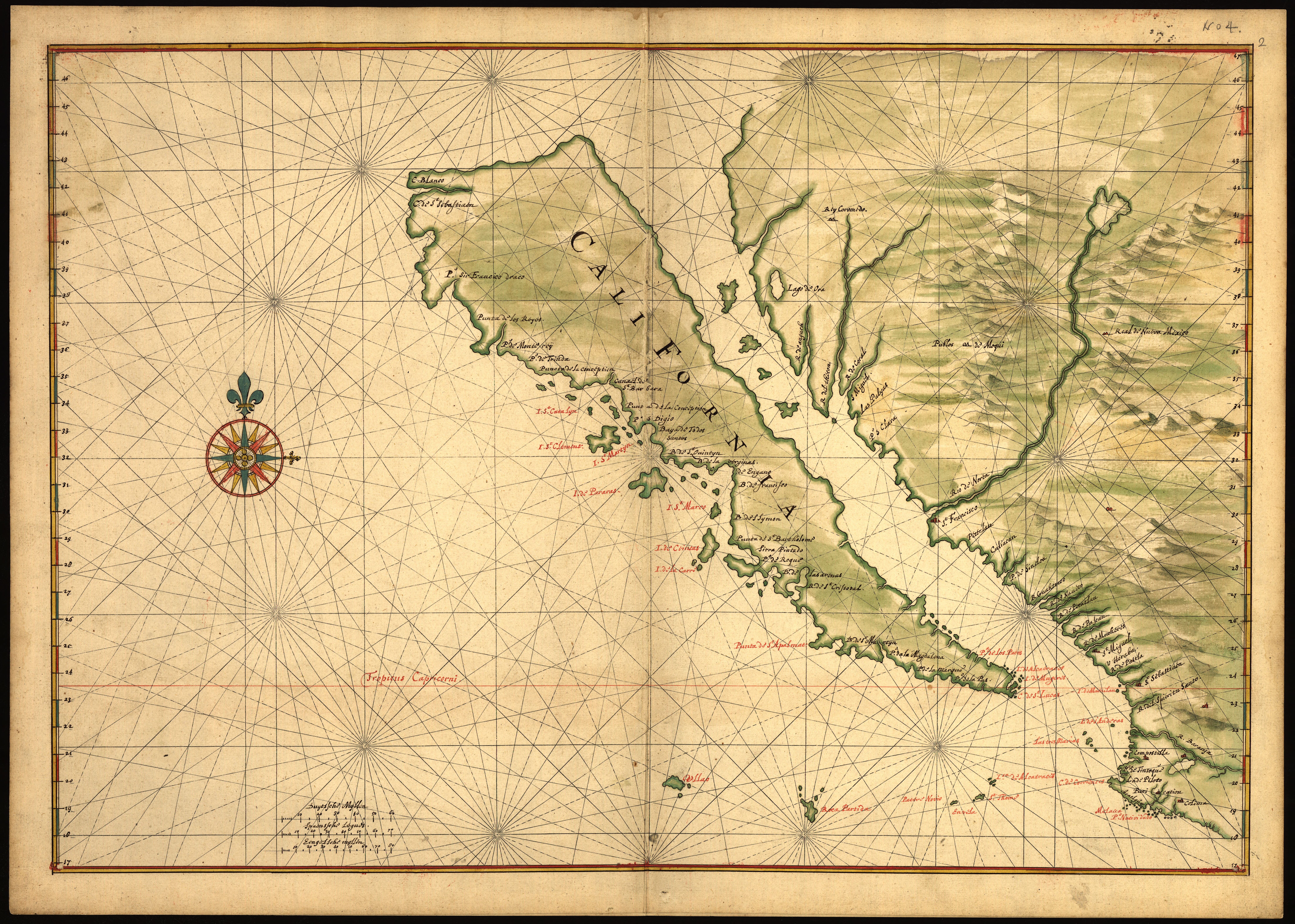 Map of California as an island. Ink and watercolor with pictorial relief.